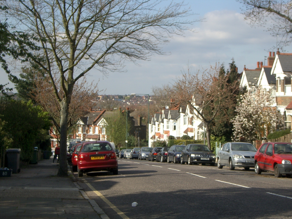 Chambers Lane, Willesden. Summary Chambers Lane, Willesden.